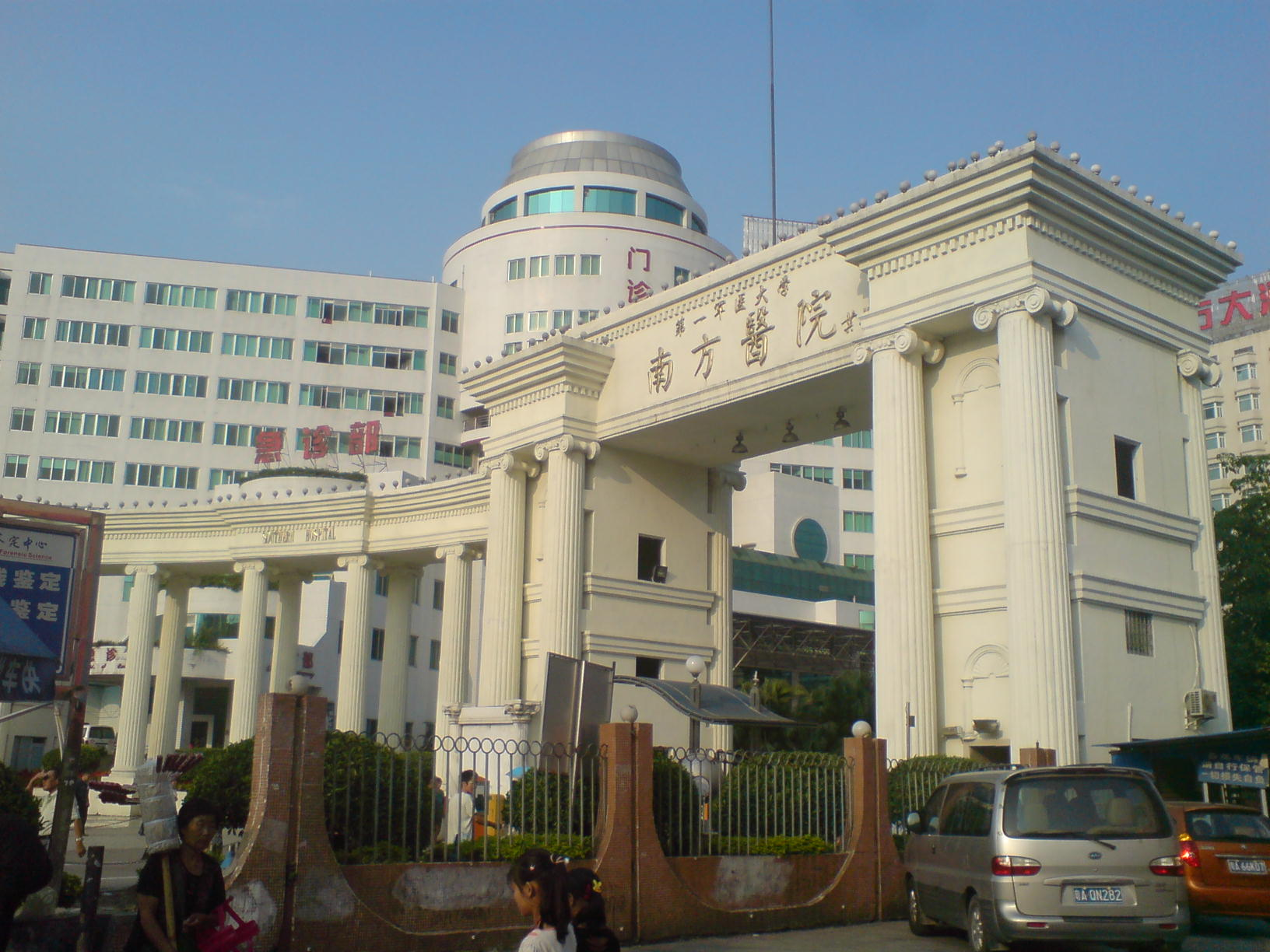 Depicted place: Nanfang Hospital